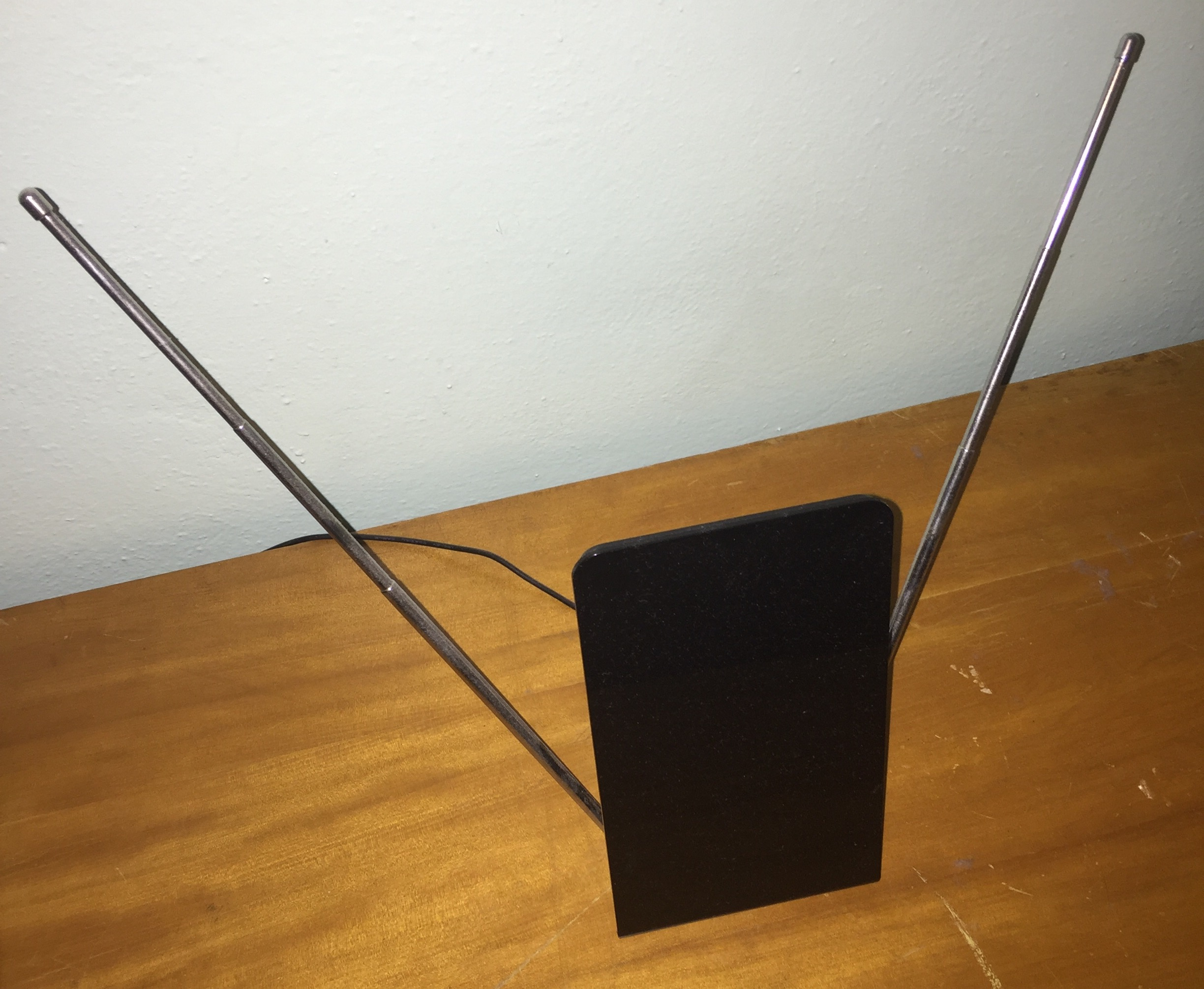 A "rabbit ears" type half wave dipole television antenna used to receive terrestrial (broadcast or "over the air") television signals from a television station. An indoor antenna that was designed to stand on the top of the television set. The two telescoping rod elements are shown retracted; when extended they are almost a meter long.